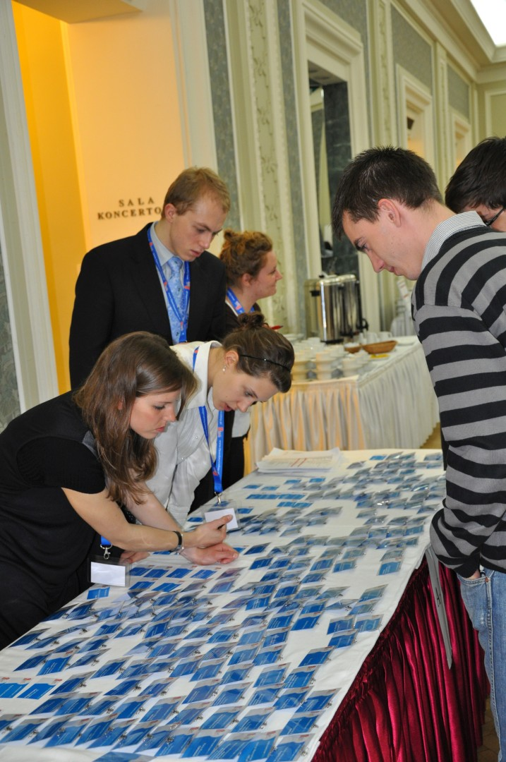 More than 400 attendees arrived at the Open Source Day 2010 Conference in Warsaw